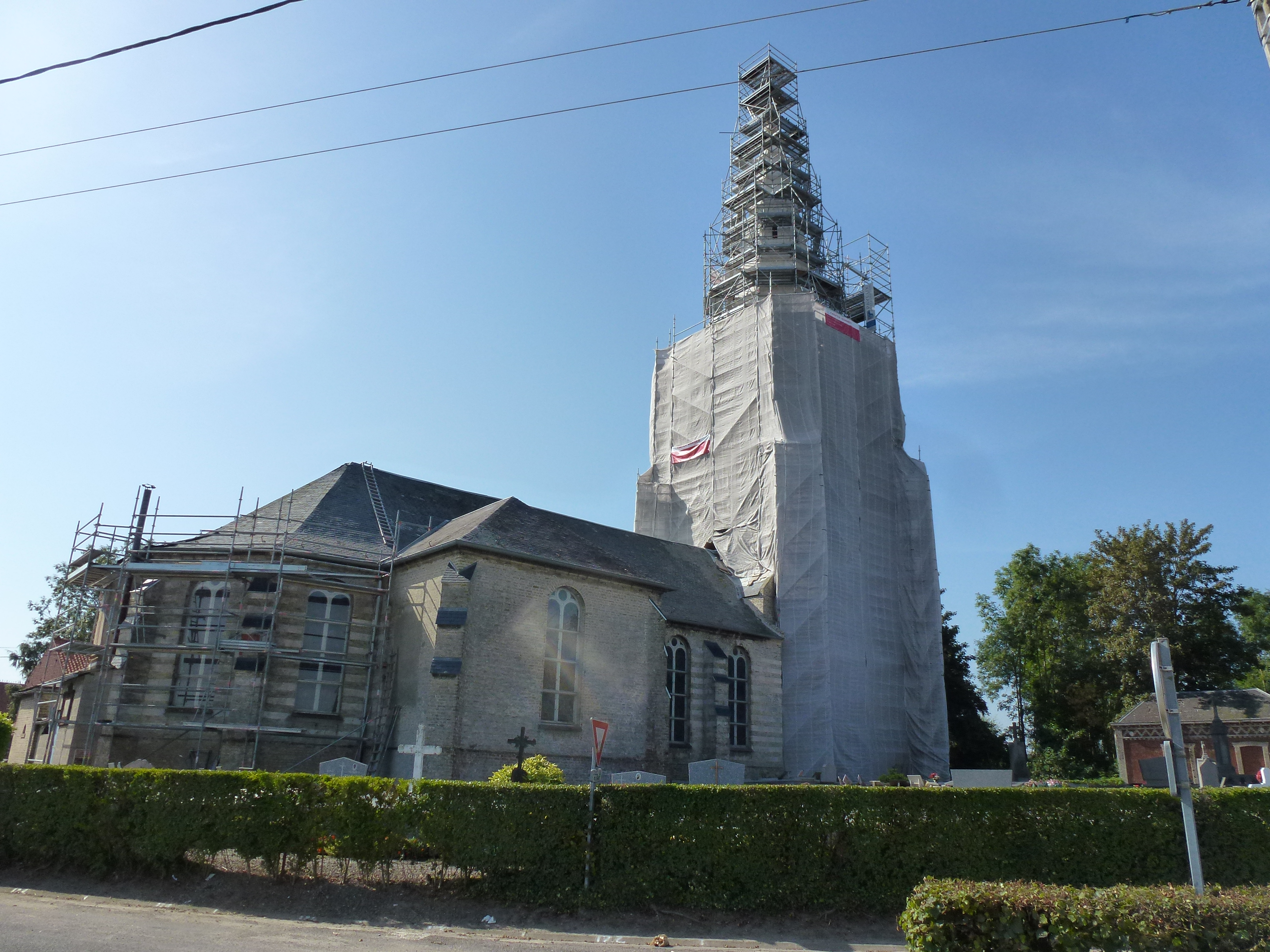 Ruminghem (Pas-de-Calais) église Saint-Martin